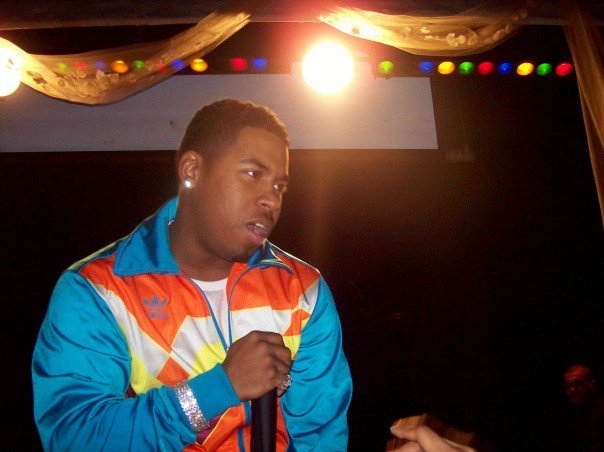 Bobby Valentino; Cape Girardeau (December 2, 2006) Bobby Valentino performing at Southeast Missouri State University during Alpha Phi Alpha's Miss Black & Gold Pageant. Photo by Alessandro Grimaldi (RELEASED)